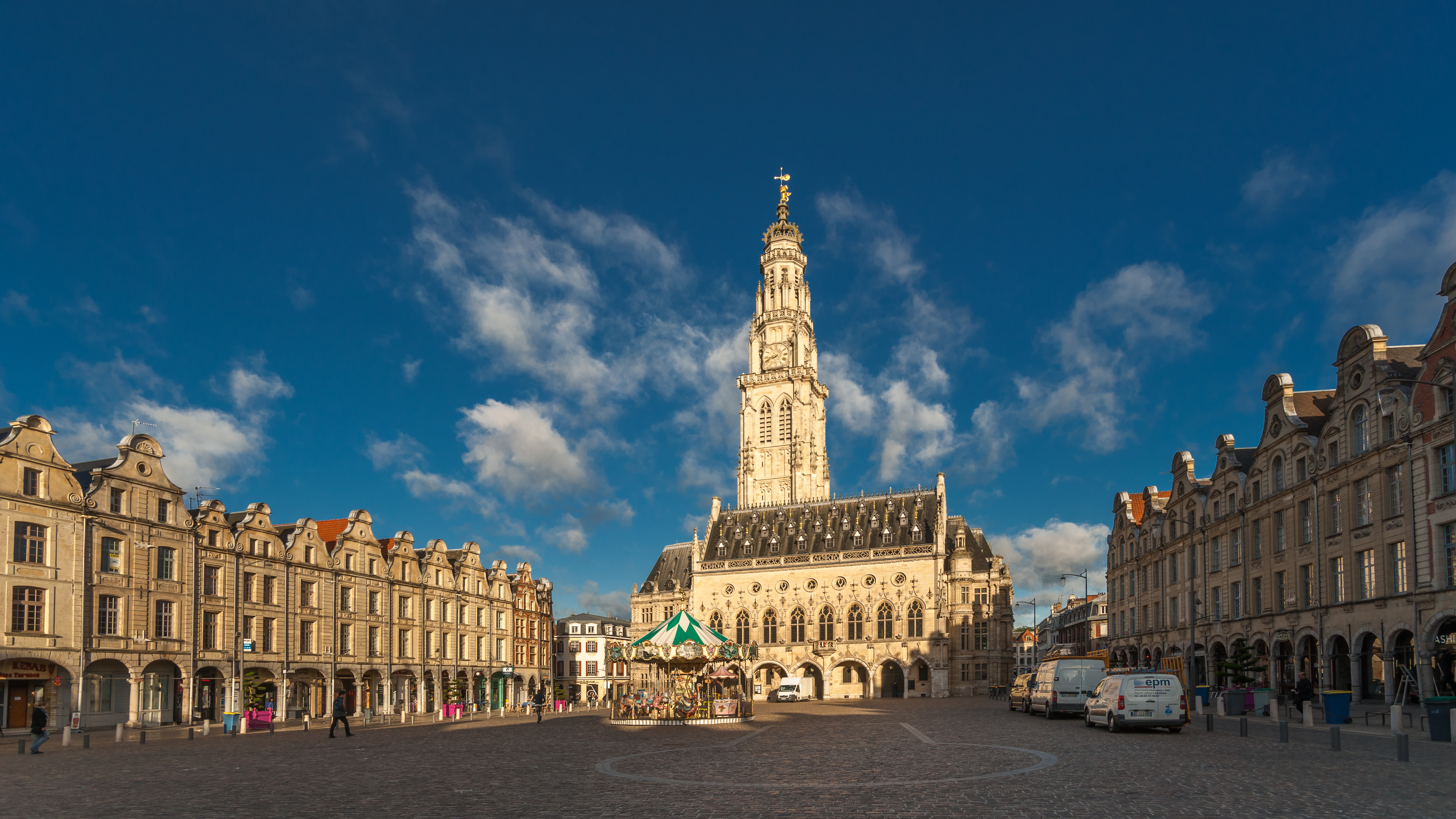 Town hall in Arras, Pas-de-Calais department/France .